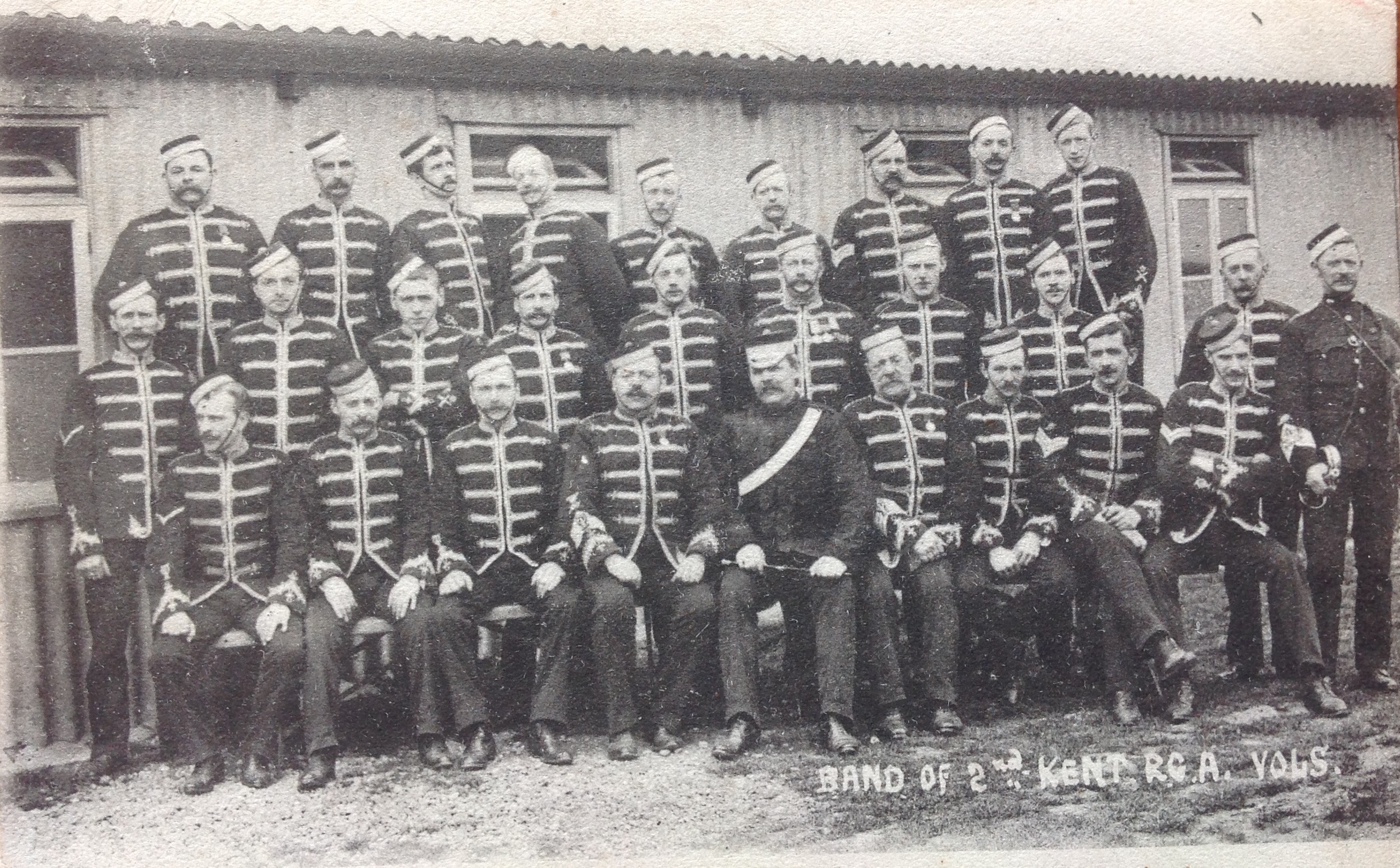 Band of the 2nd Kent Royal Garrison Artillery (Volunteers), c1902